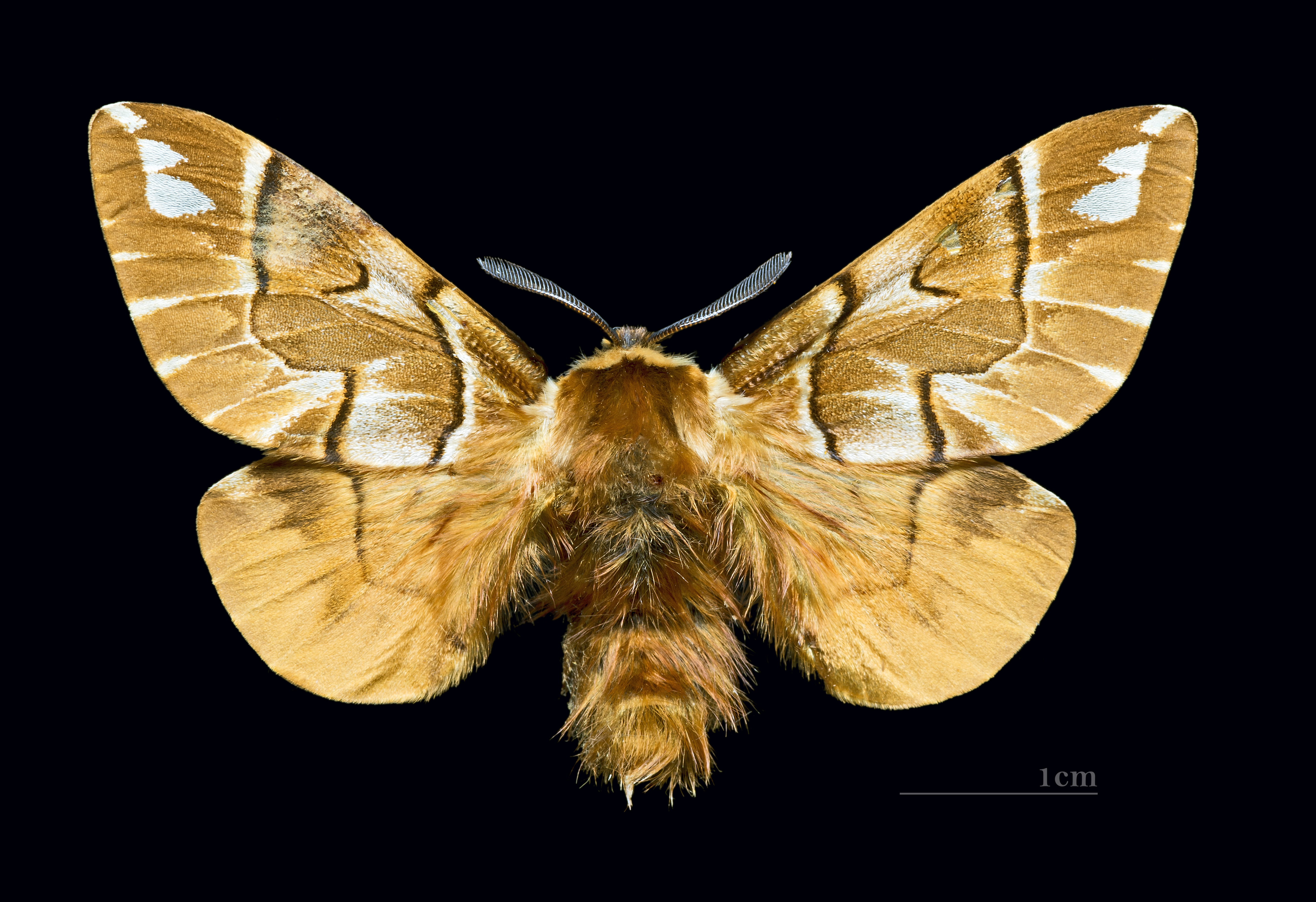 Birkenspinner . Dorsal side